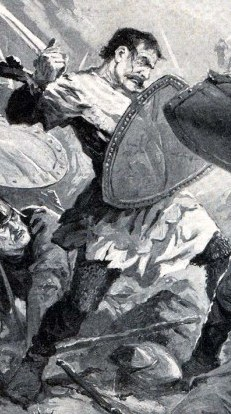 Tsar Michael III of Bulgaria